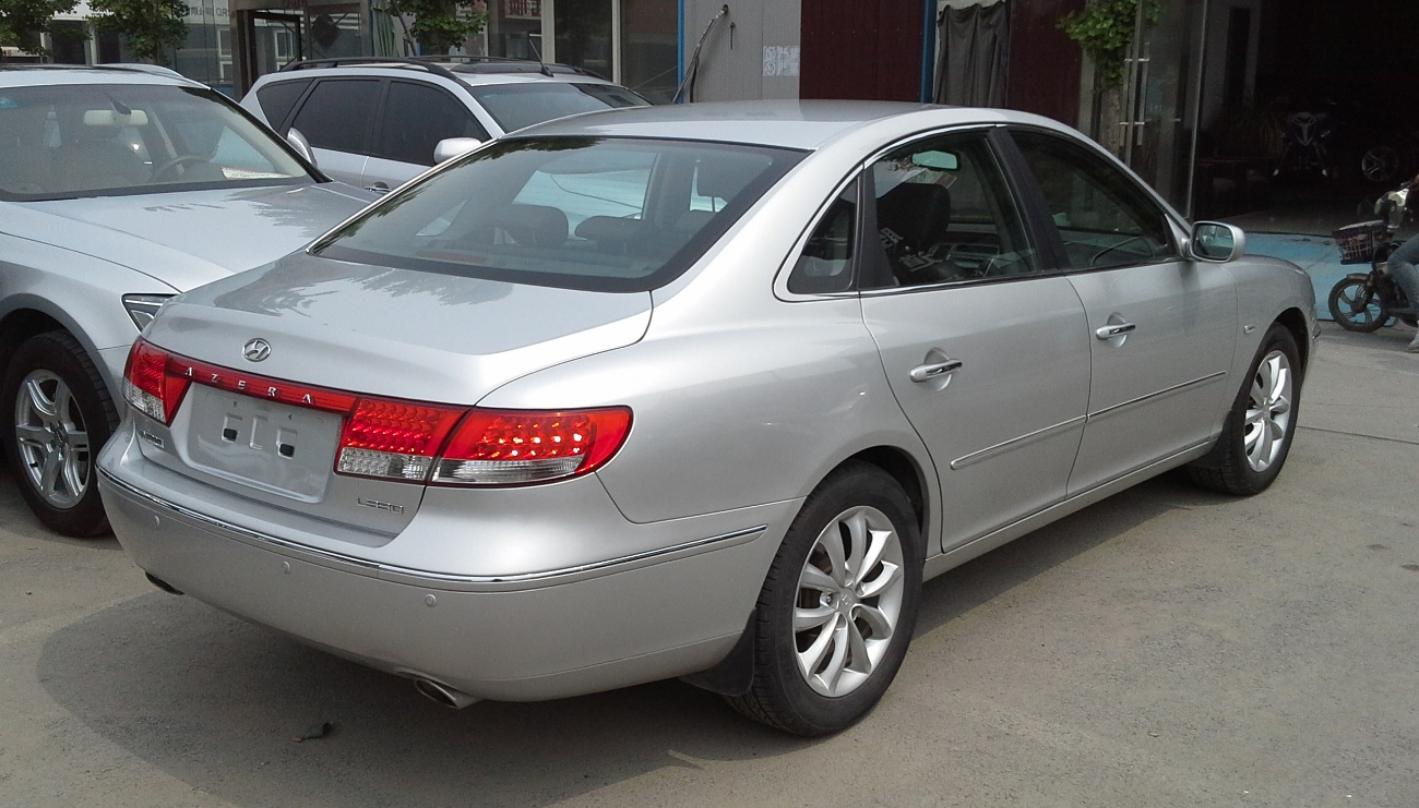 Hyundai Azera TG photographed at the Beijing Used Car Trade Market, Beijing, China.